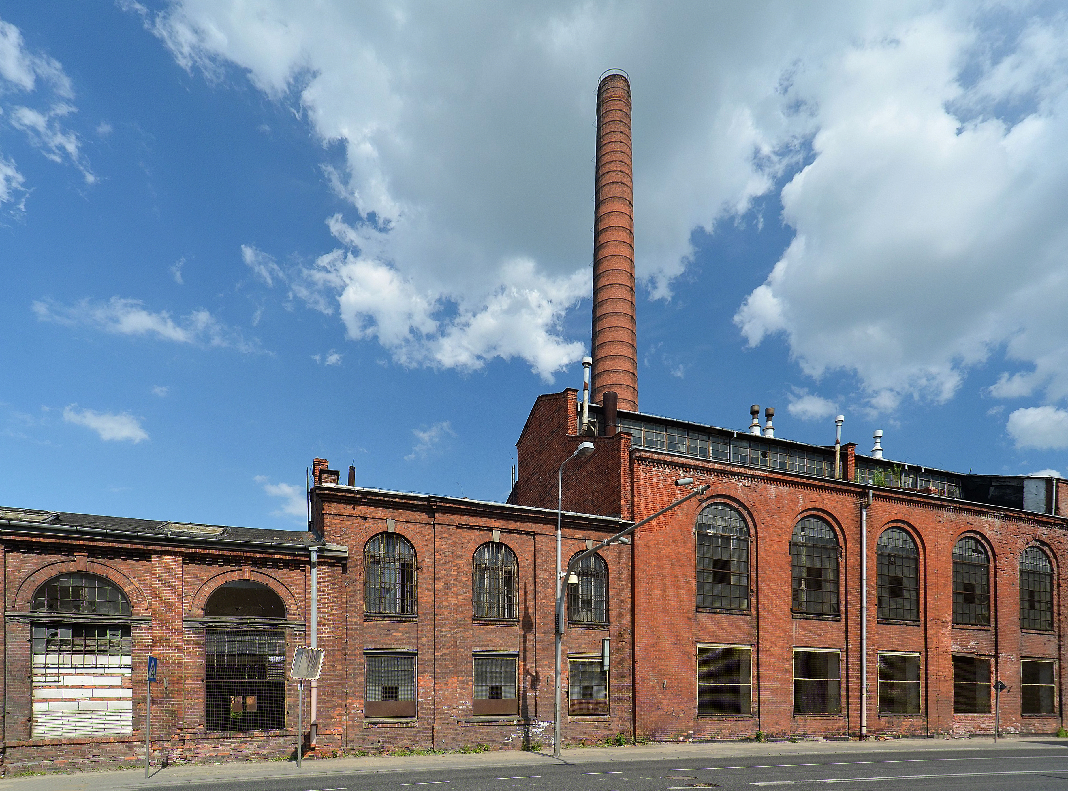 Former Schicht-Lever factory at 20 Szwedzka Street in Warsaw